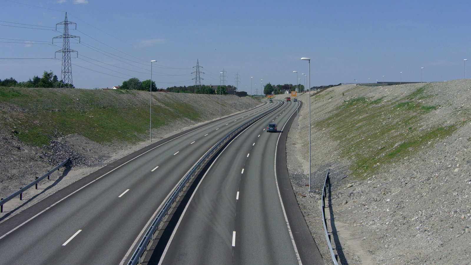 Riksvei 44 in Sandnes, Norway